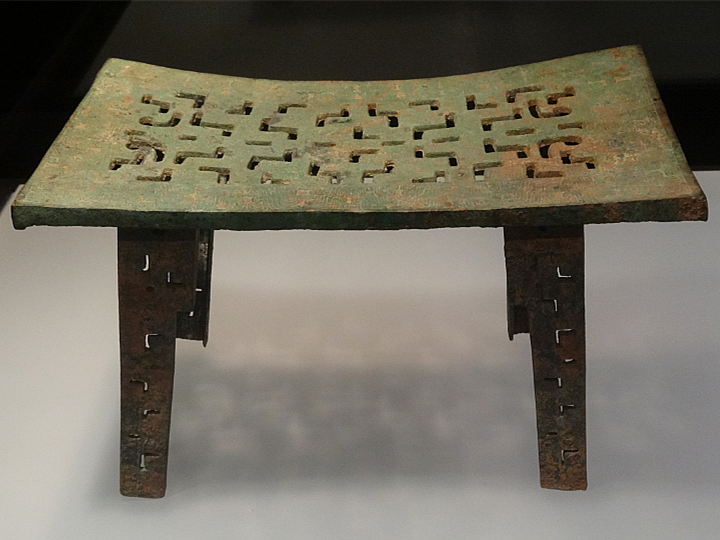 Bronze openwork Zu chopping block, Spring and Autumn period (770-476 B.C.), Excavated from tomb No.1 at cemetery of the Chu state, Xiasi, Xichuan county, 1978